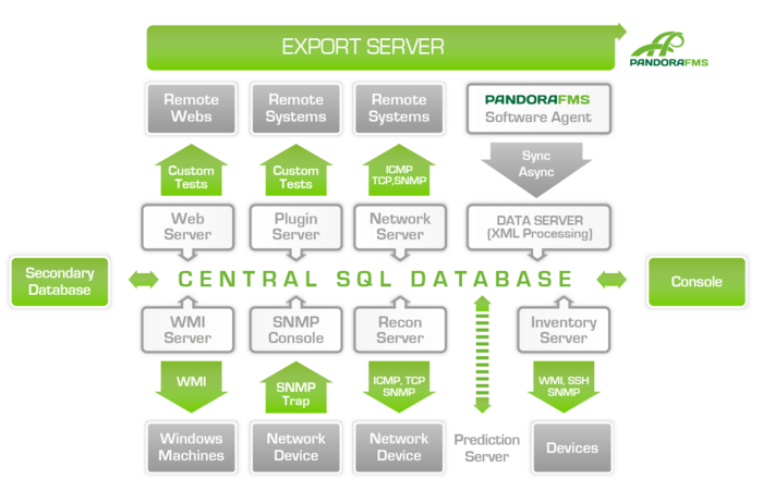 Pandora Architecture